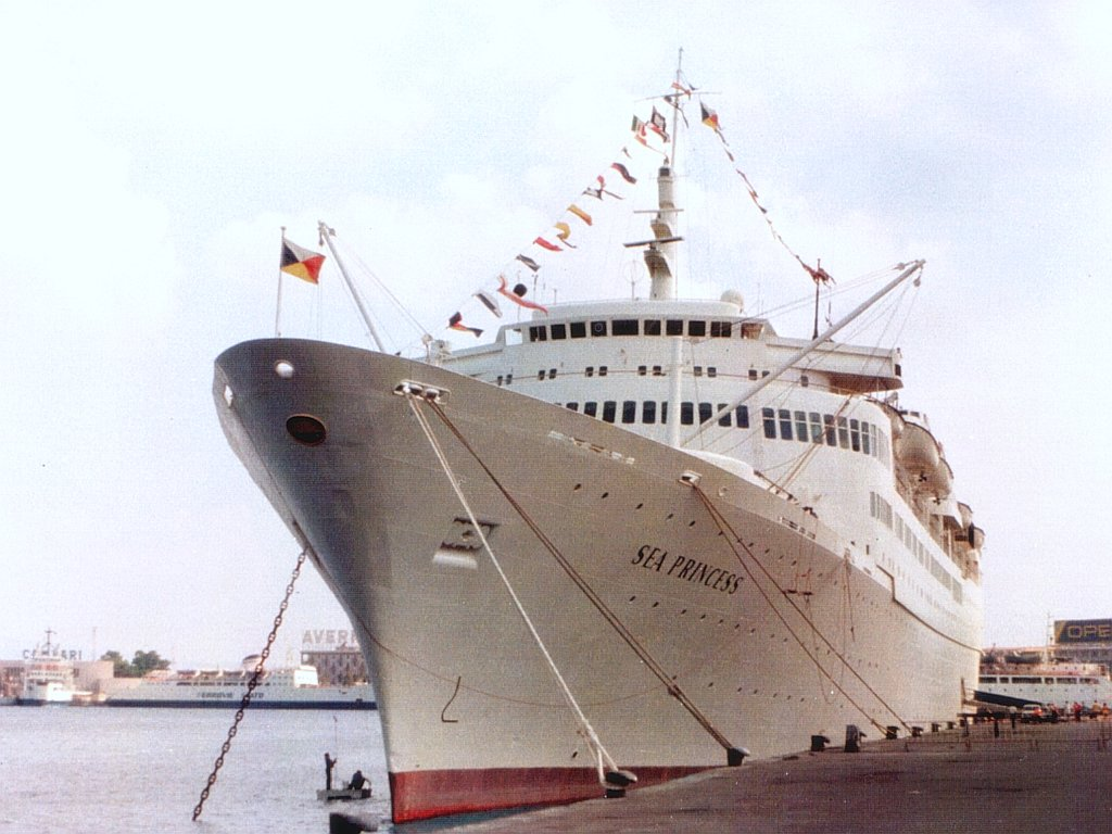 Sea Princess in Messina, 1986